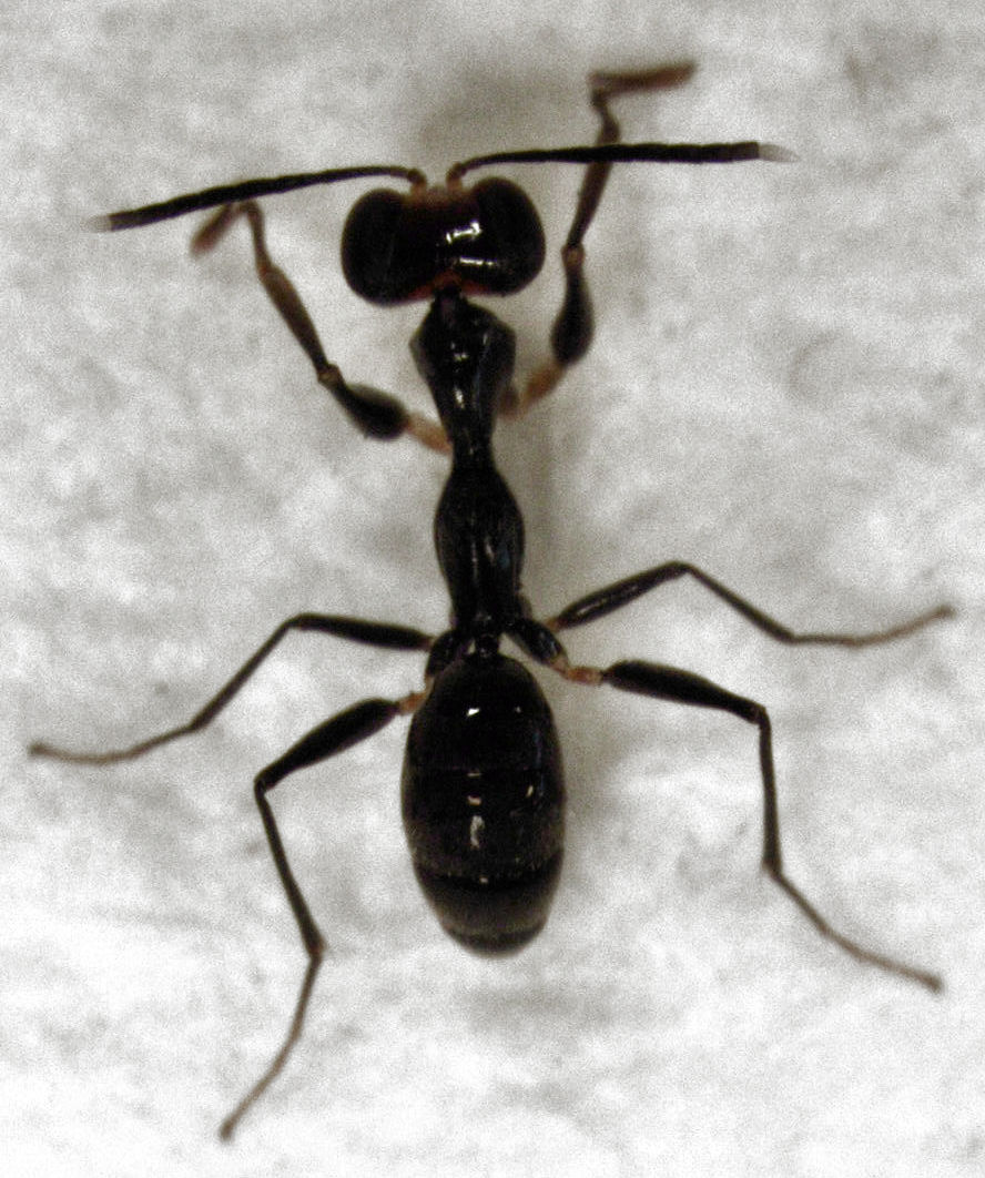 Gonatopus zealandicus, female